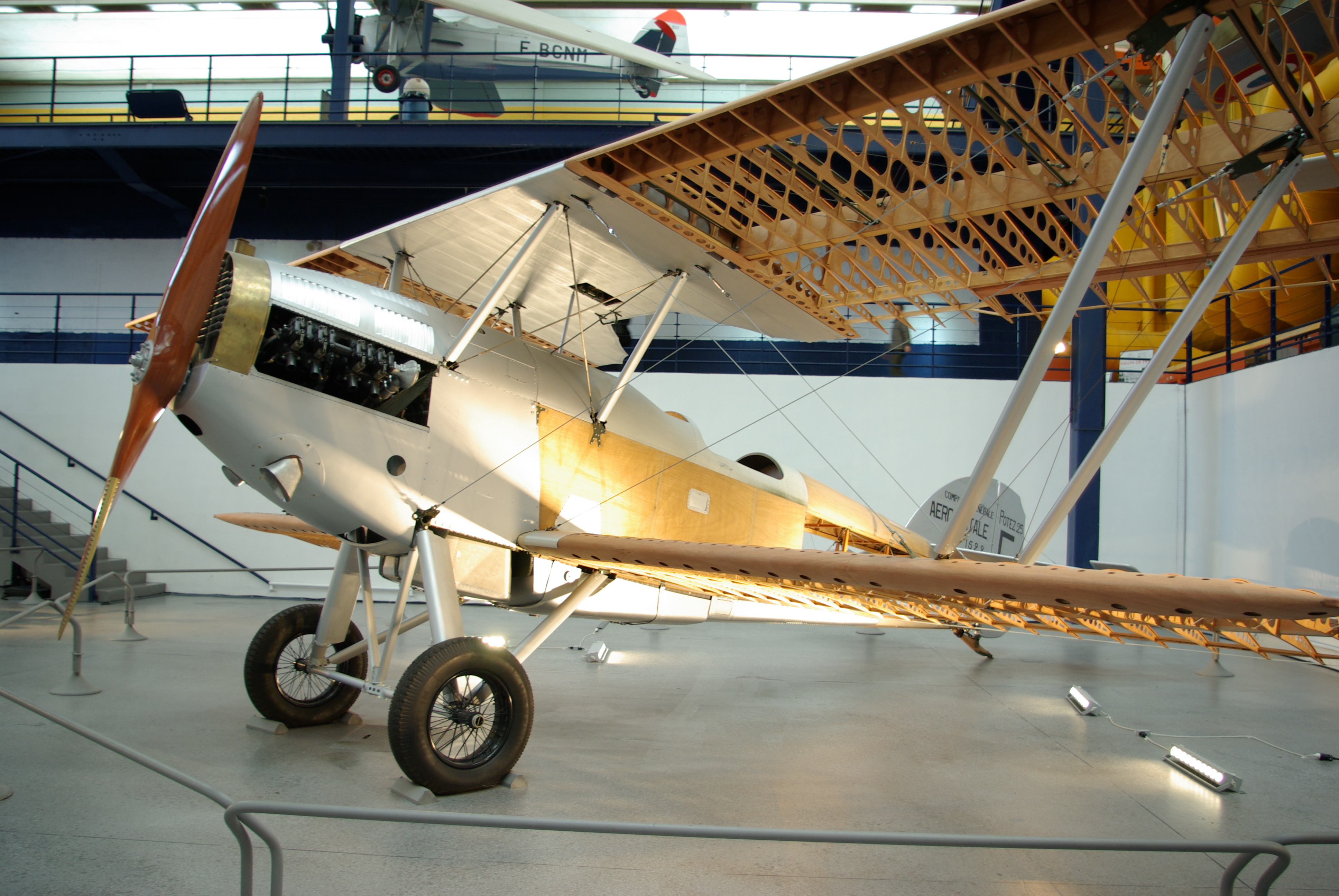 Cutaway of a Potez 25 TOE exhibited at the Air & Space Museum of Le Bourget, France.